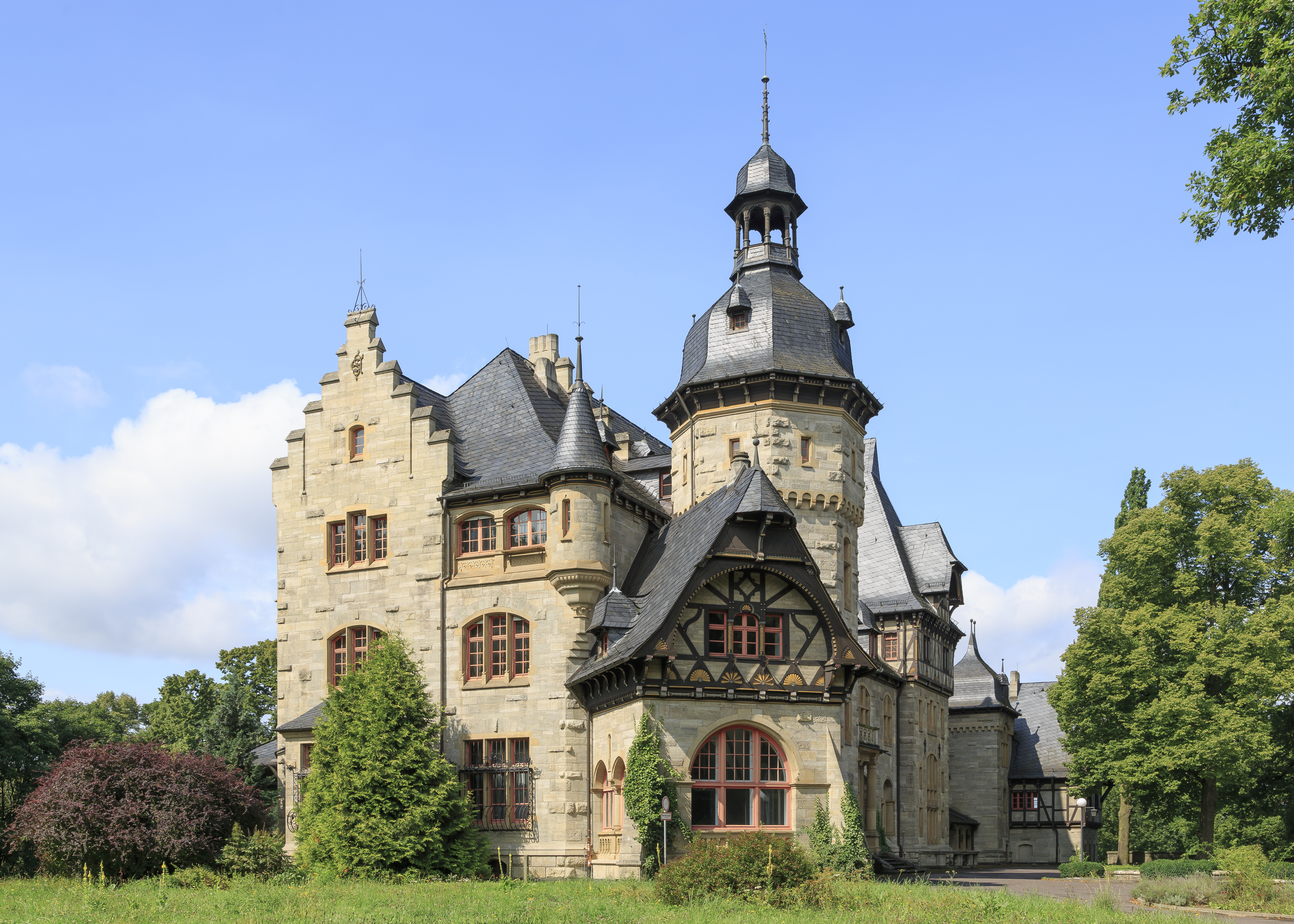 Eisenach, Germany: Landhaus Pflugensberg. The manor in the style of a castle was built 1889-1892 by Ludwig Neher and Aage von Kauffmann and Max Bertram (Park extension) for Friedrich Eduard von Eichel-Streiber. After refurbishment in 1921 headquarters of the Protestant-Lutheran National Church of Thuringia.